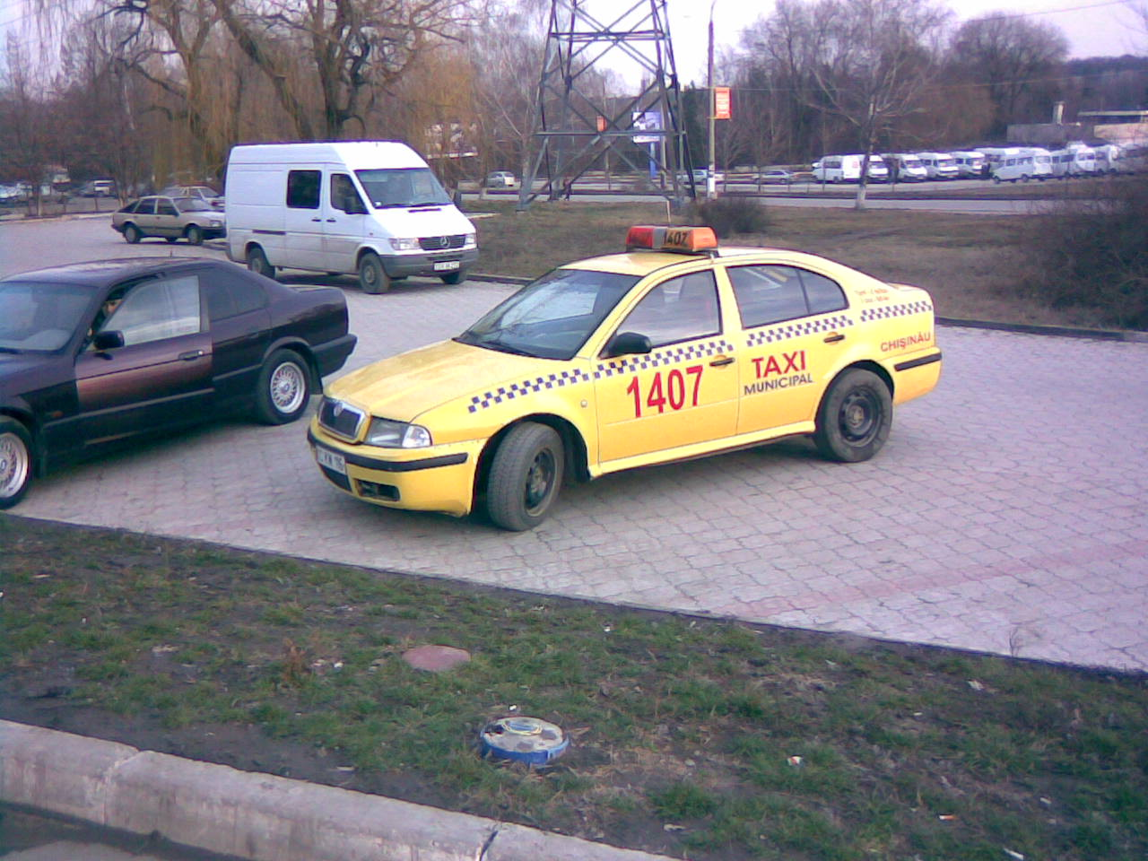 Skoda Octavia taxi in Chisinau, Moldova, 2009